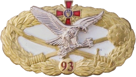 93rd Mechanized Brigade badge (Ukraine)